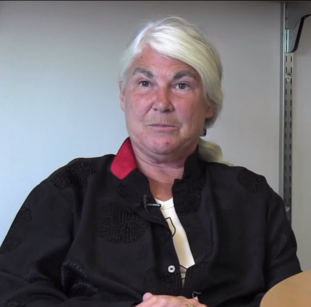 Dr Stephanie Seneff, Senior Research Scientist at MIT, talks about her experience of getting her findings demonstrating a causal link between statins and Alzheimer's published. This is the ninth part of her interview for 'You must be nuts!', the investigative documentary about the business of dementia. You can watch the prequel of 'You must be nuts!' here: . For more details